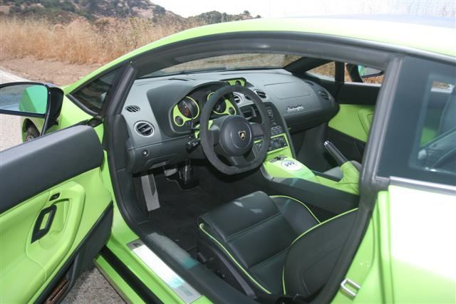 2006 Verde Ithaca Lamborghini Gallardo SE factory interior.